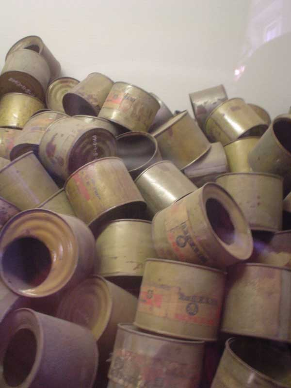 Empty poison gas canisters found by the Allies in the Auschwitz-Birkenau Nazi extermination camp at the end of World War II. Image taken from Auschwitz II museum showcase. I, the Wikimedia user Palthrow hereby release it into the public domain.